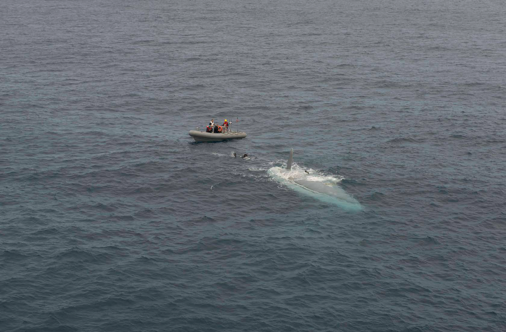 Rescue forces from USS Oscar Austin’s send a swimmer to the upturned hull of the Cheeki Rafiki. They found the liferaft still in place.